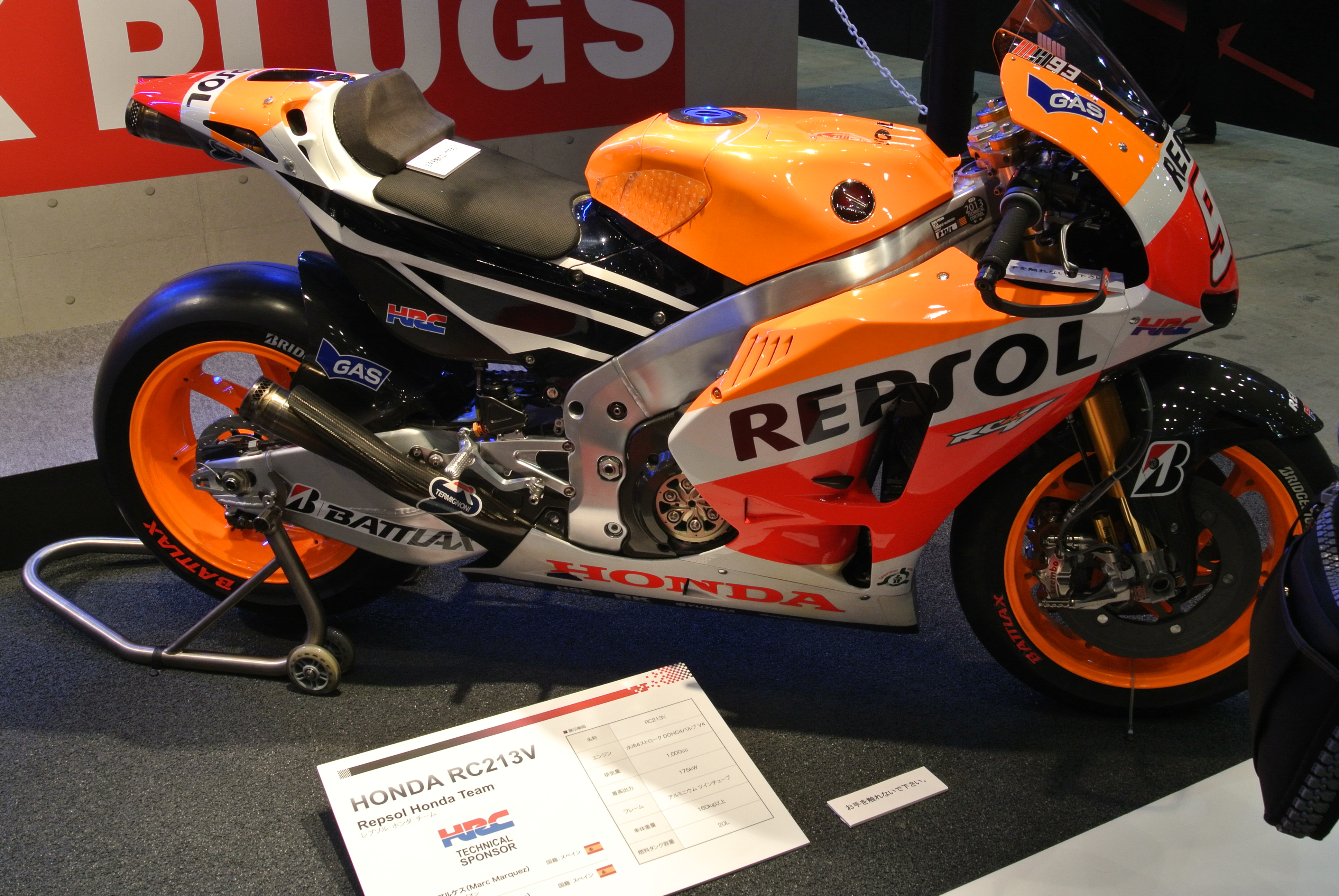 Honda RC213V at the Tokyo Motorcycle Show 2014. #93 Marc Márquez